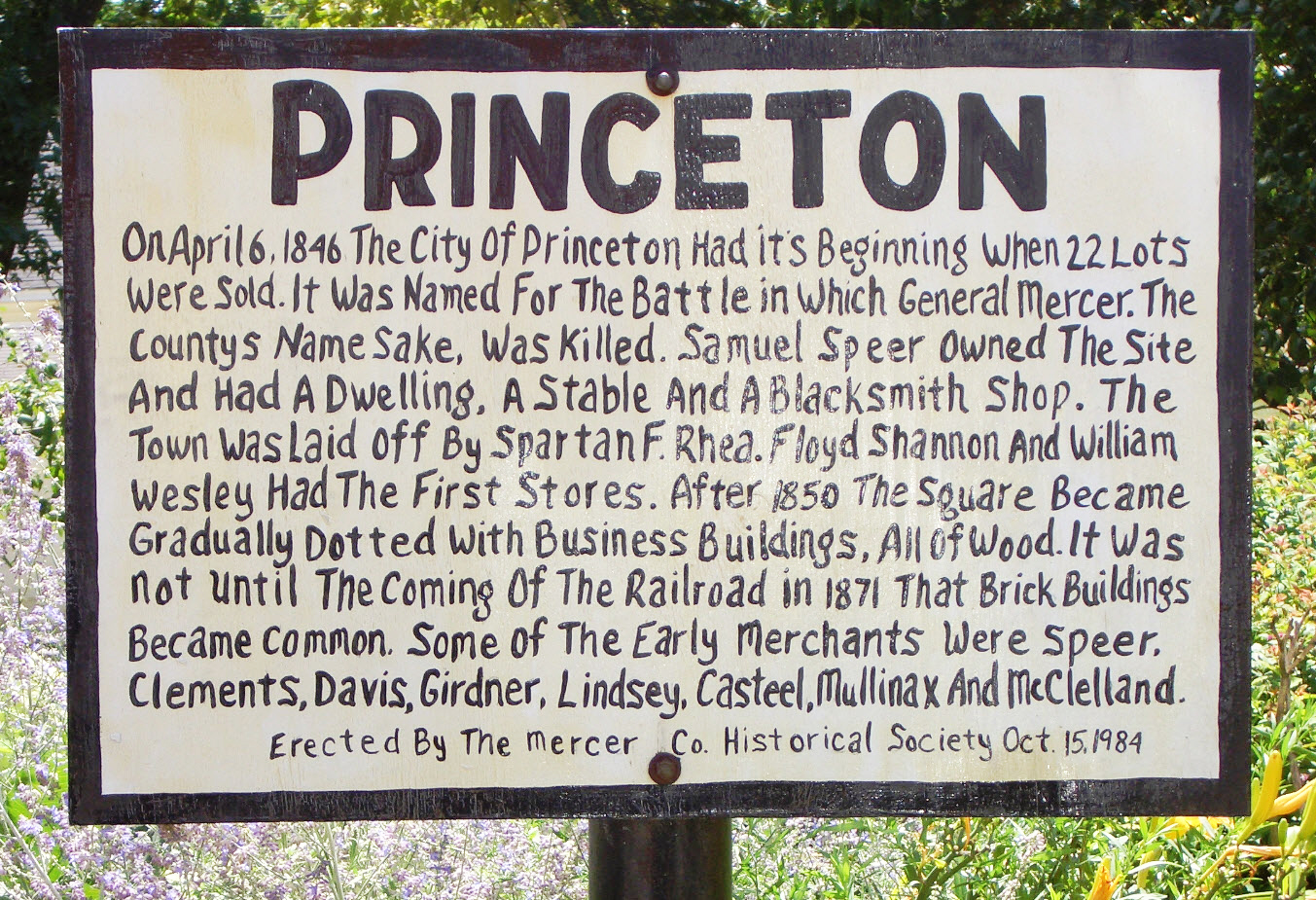 Princeton, Mercer County, Missouri historical marker located at the courthouse